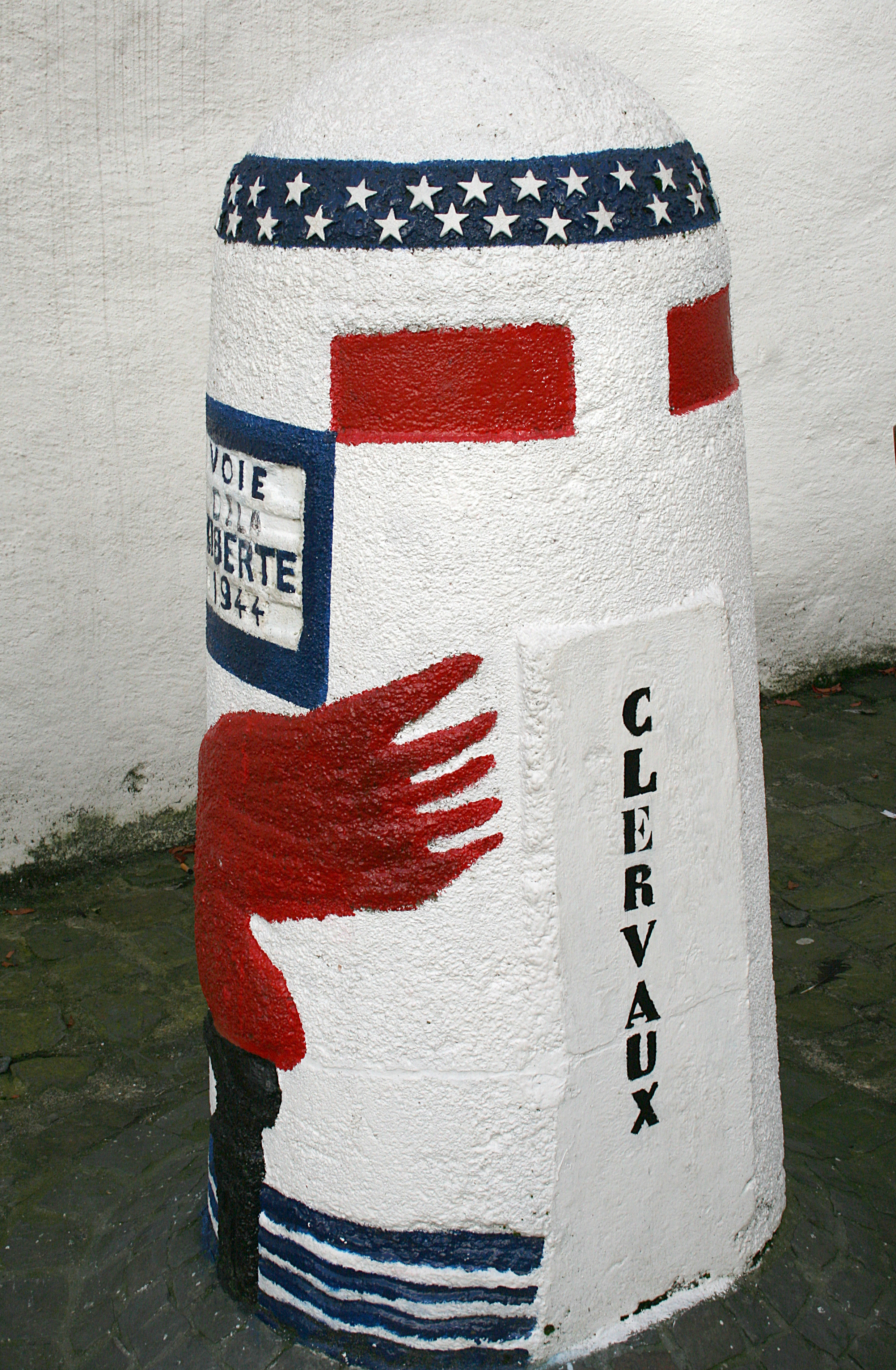 Clervaux (Luxembourg), Born of the Liberty Road located inside of the courtyard of the Clervaux castle.